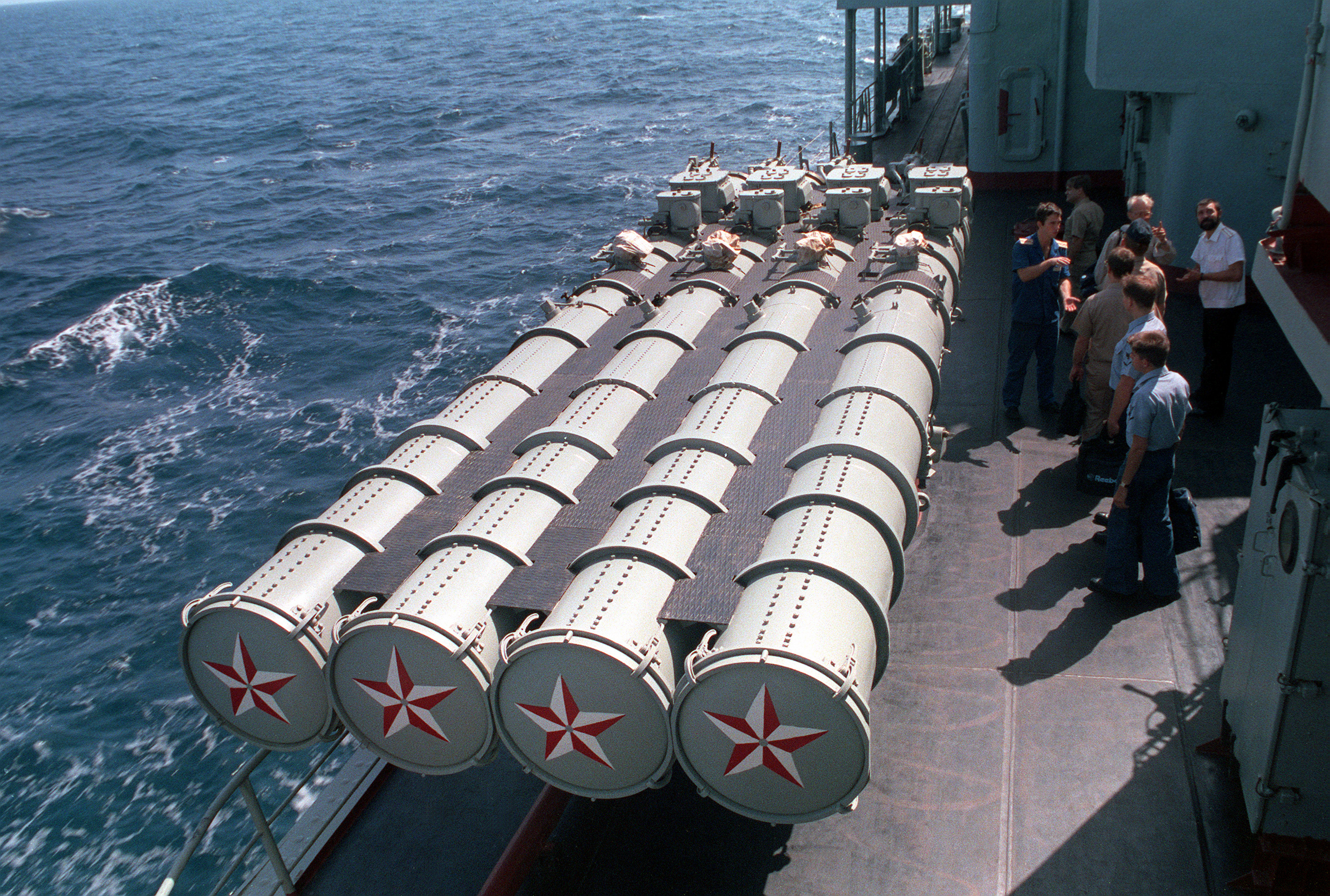 The 533-mm (21-inch) antisubmarine torpedo tubes ChTA-53-1155 of the Russian guided misisle destroyer Admiral Vinogradov (BPD-554).